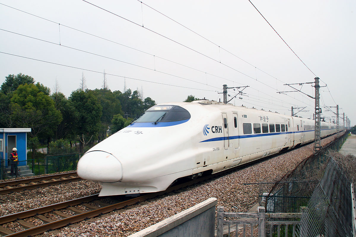 FakeTrain Buffing假的火车热情症（笑） Canon EOS20D + Tamron AF18-200mm f/3.5-6.3 DiⅡ(A14) Blog：路地裡俱乐部(Alleyway Club-路地裏倶楽部）in Flickr